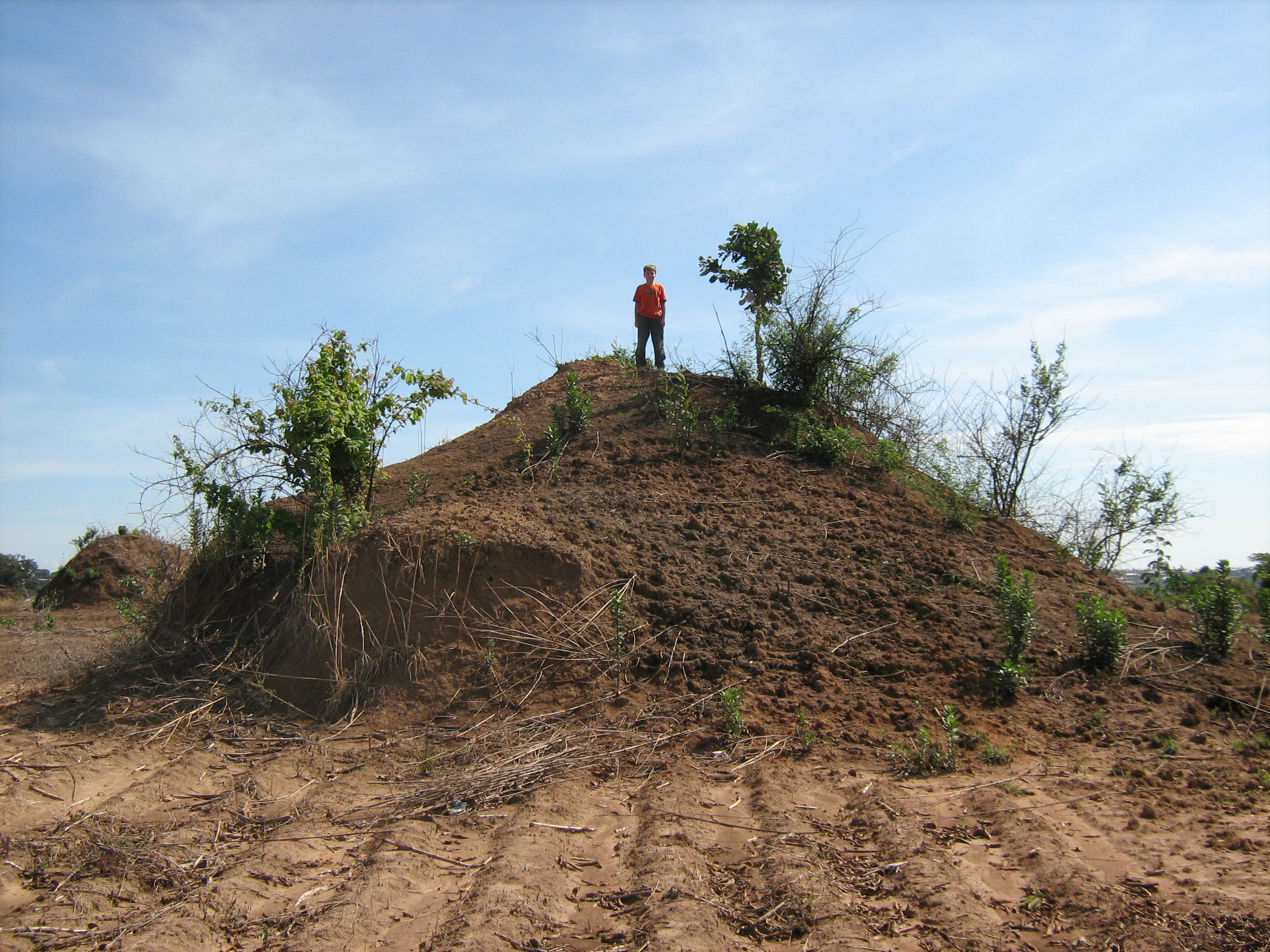 A giant anthill in Zambia (in Africa). It has been built entirely termites. Part of the hill has been dug away to make bricks (clay from an ant hill makes great bricks) and monsoon rains have washed a small amount of the clay off too. The land around the anthill has been cleared but the anthills were left because they are hard to remove.